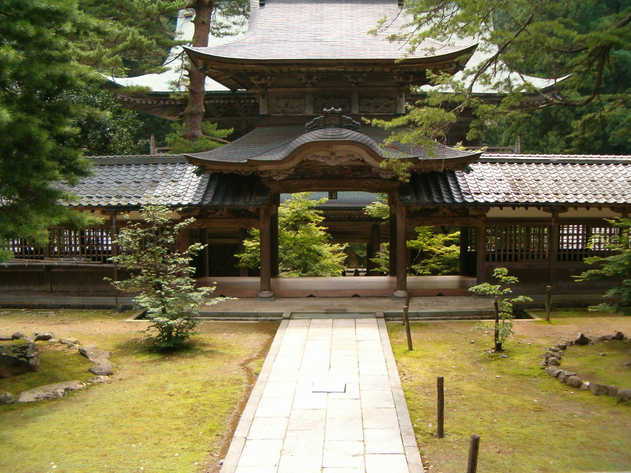 Central gate in Eiheiji Temple complex, the 中雀門 (chūjakumon) Gate.